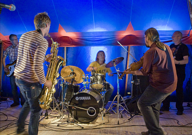 Hoven Droven at Backafestivalen 2008